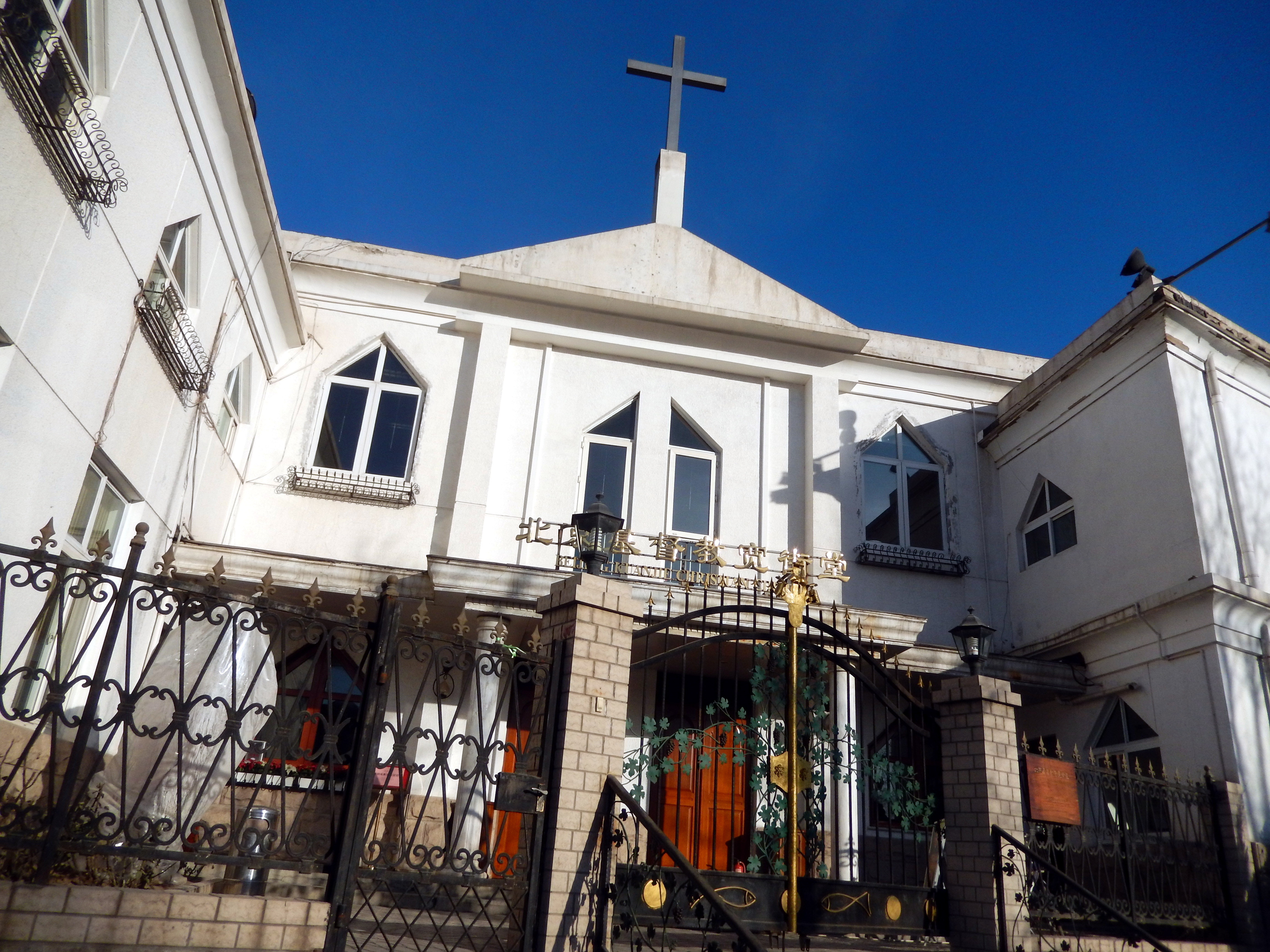 Beijing Kuanjie Christian Church